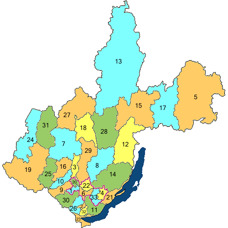 Map of Irkutsk Oblast and Ust-Orda Buryat Okrug, Russian Federation.